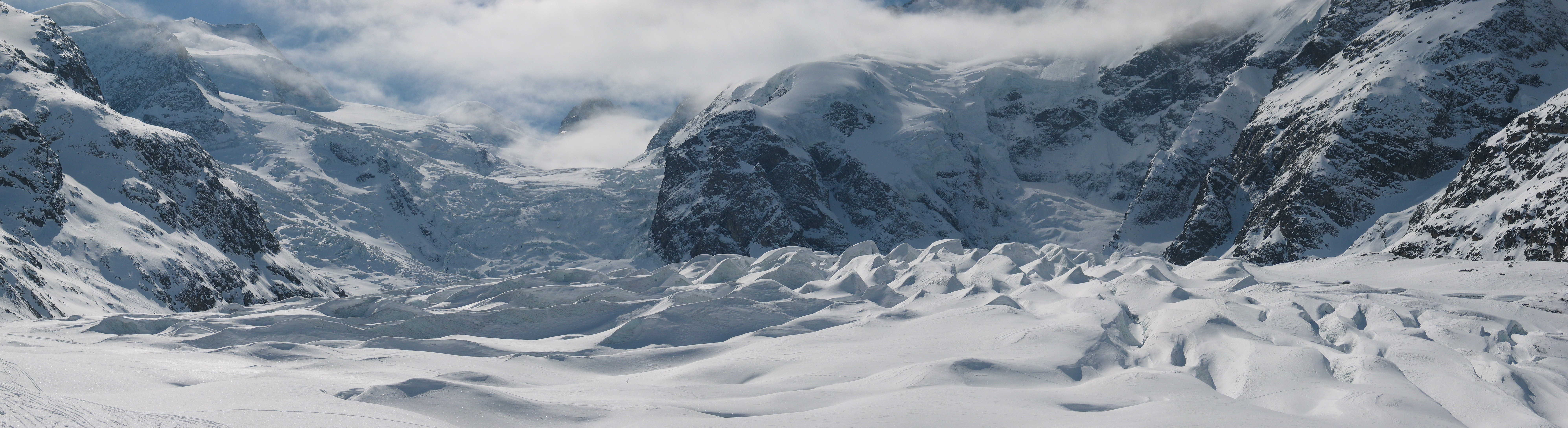 Panoramic image of the Morteratsch glacier in the Bernina Range.